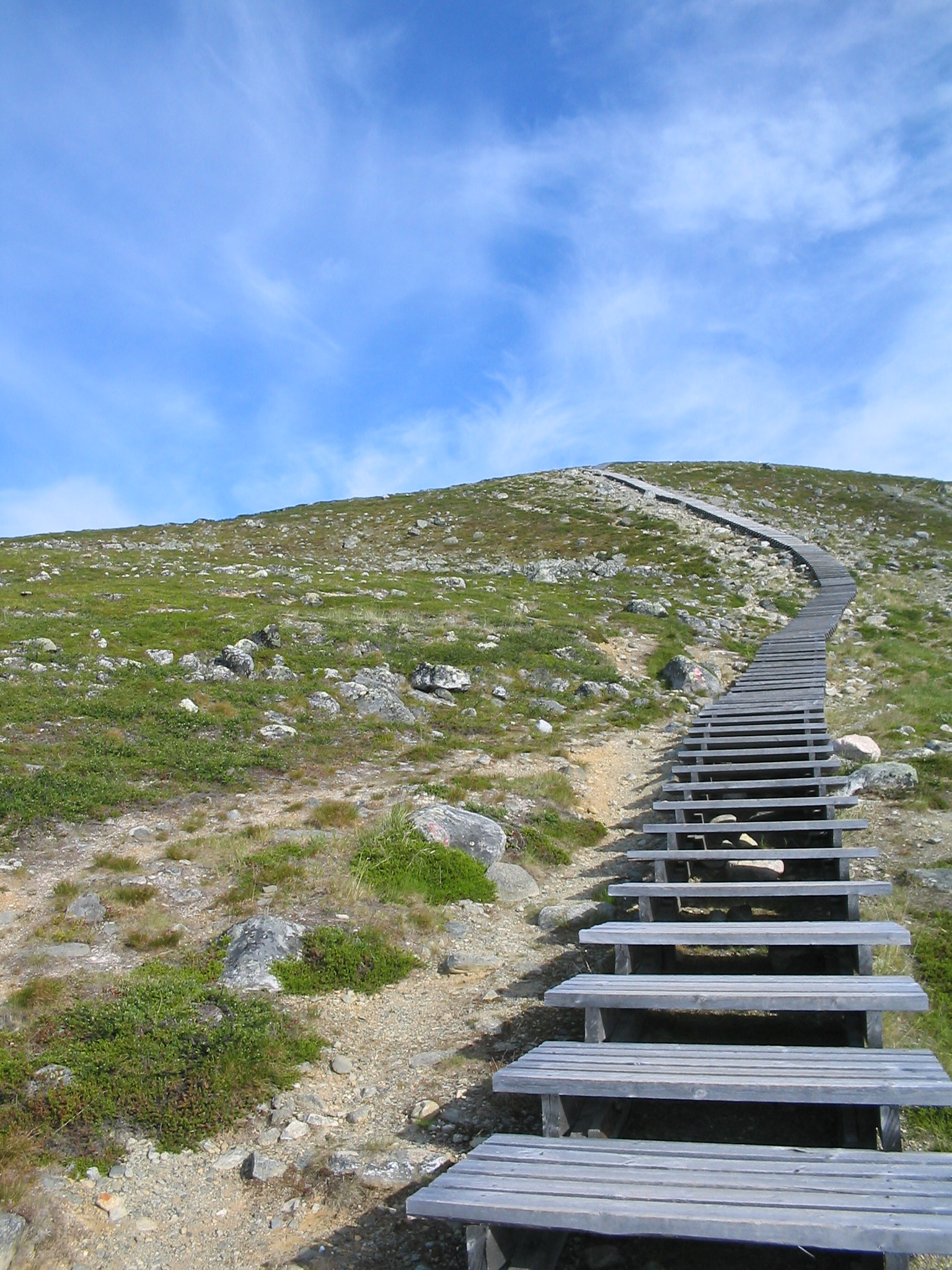 The Stairs to Saana fell in Finland